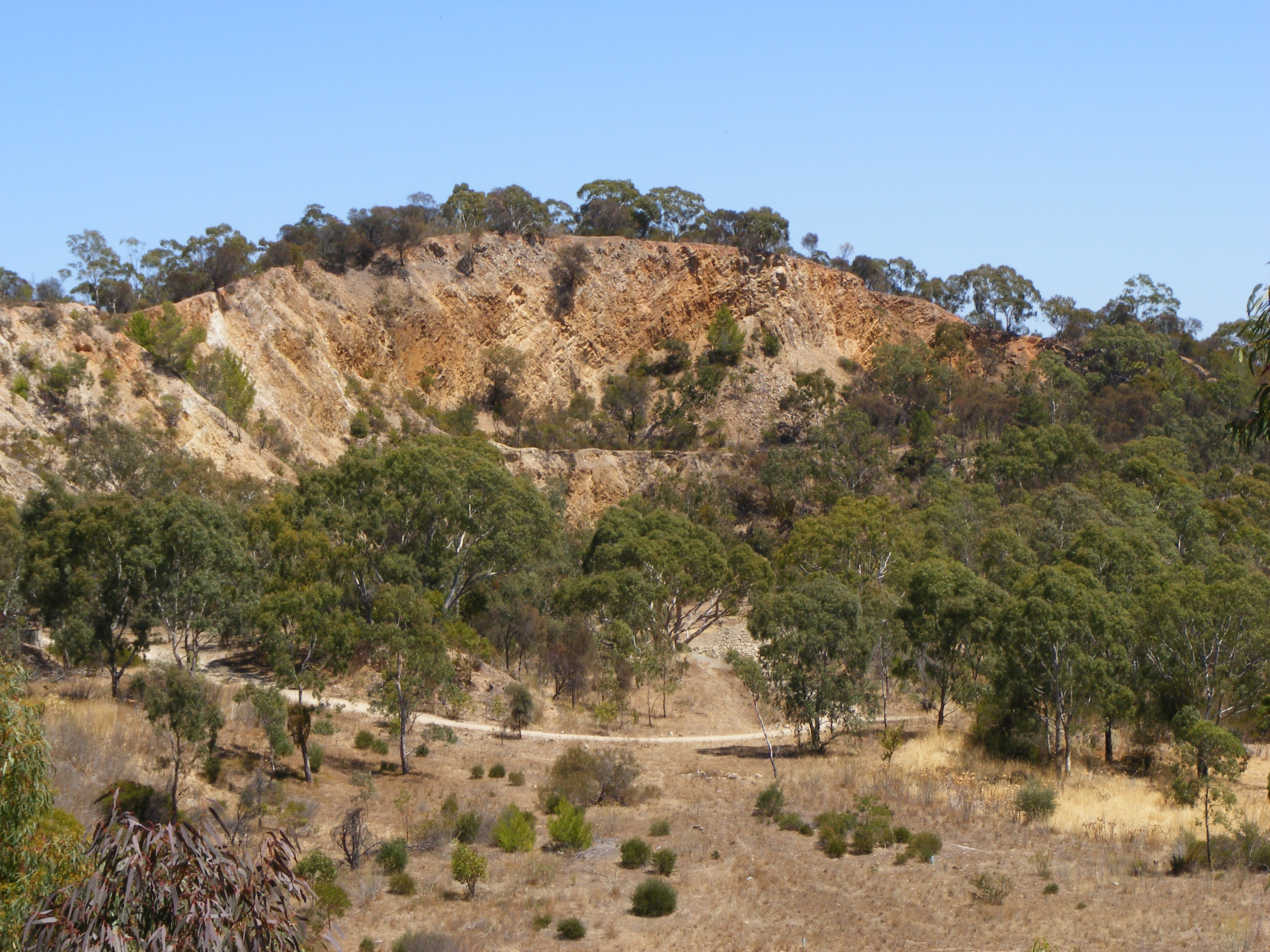 Tea Tree Gully freestone (sandstone with some feldsparthic quartzite) quarry in Anstey Hill Recreation Park, South Australia. Disused since 1982